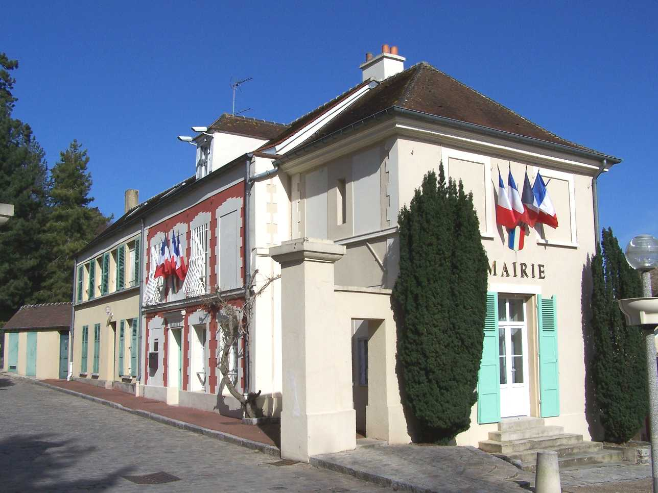 Town hall of Aigremont (Yvelines, France)